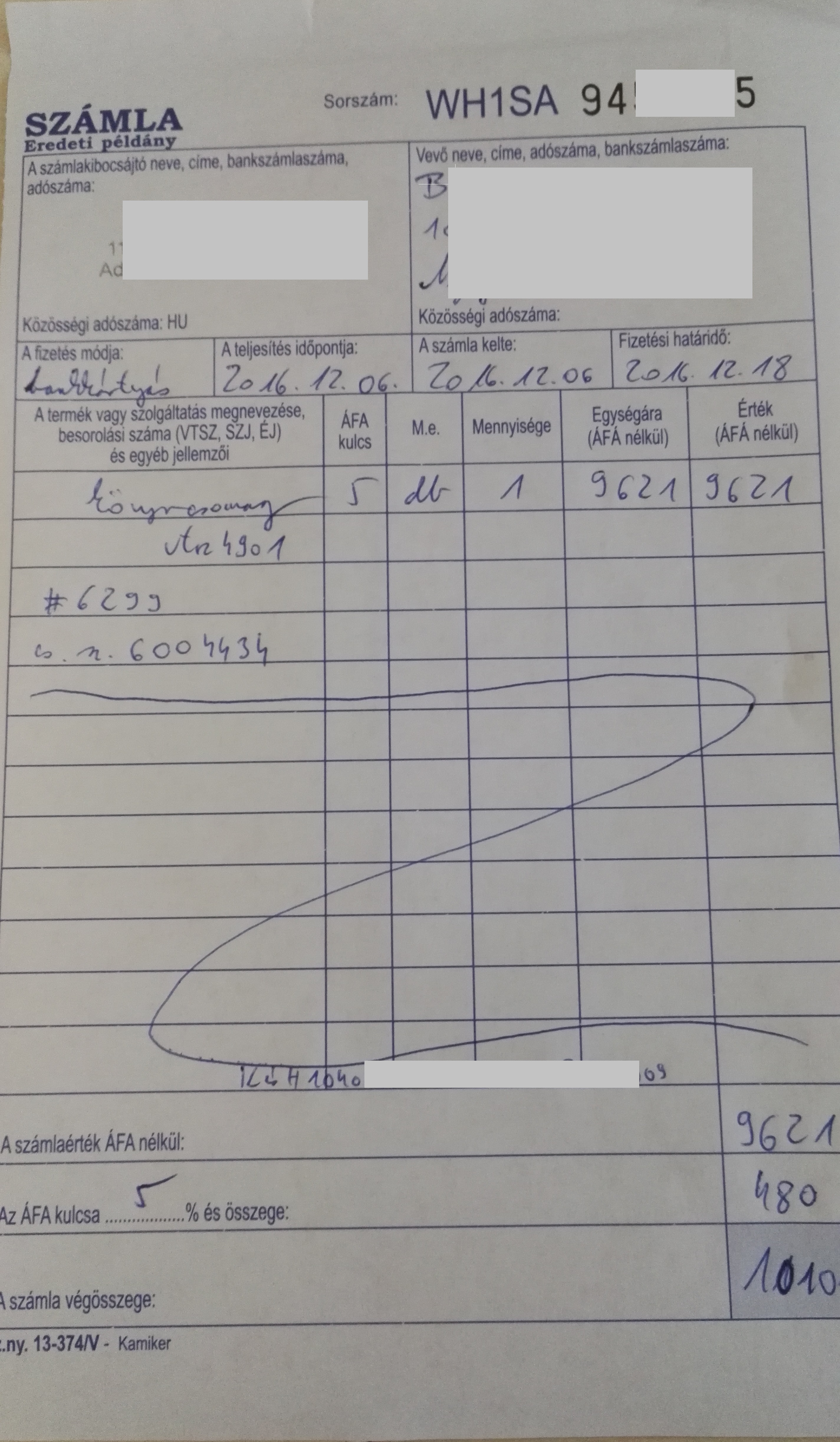 Sample of VAT invoice from Hungary, manually filled in, with personal information removed